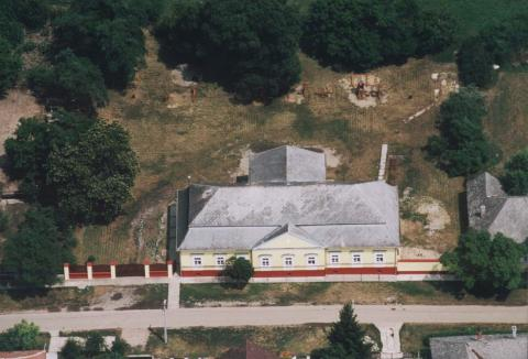 Erdődy Mansion, Esztár, Hungary, aerialphotography